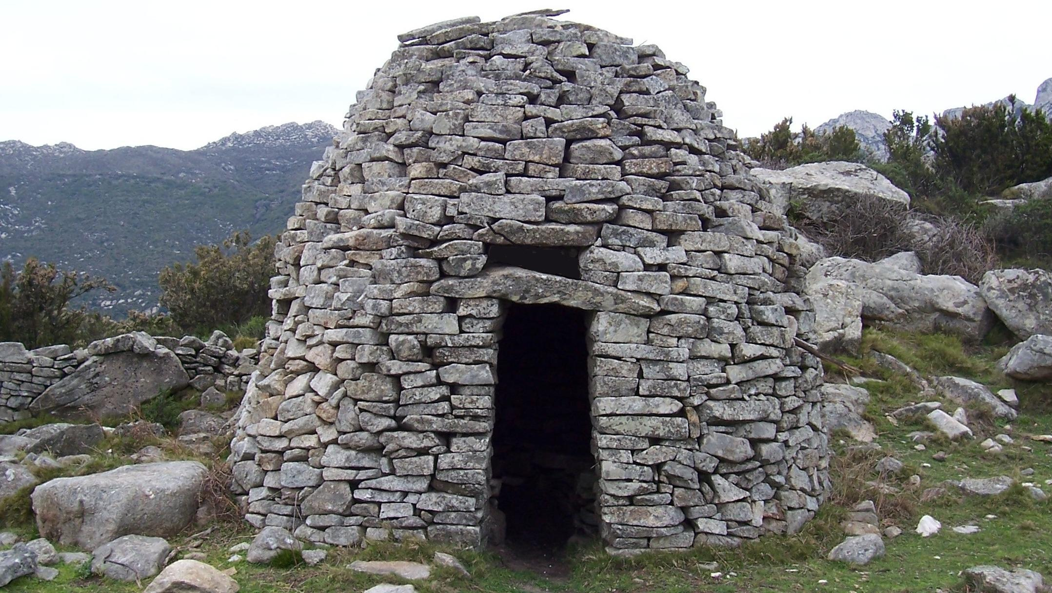 Elba island